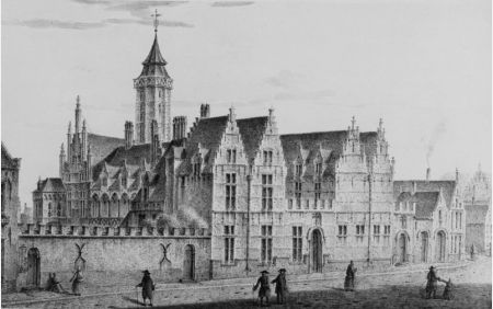 Drawing of the Hof van Busleyden, by Jean-Baptiste De Noter (1787-1855)